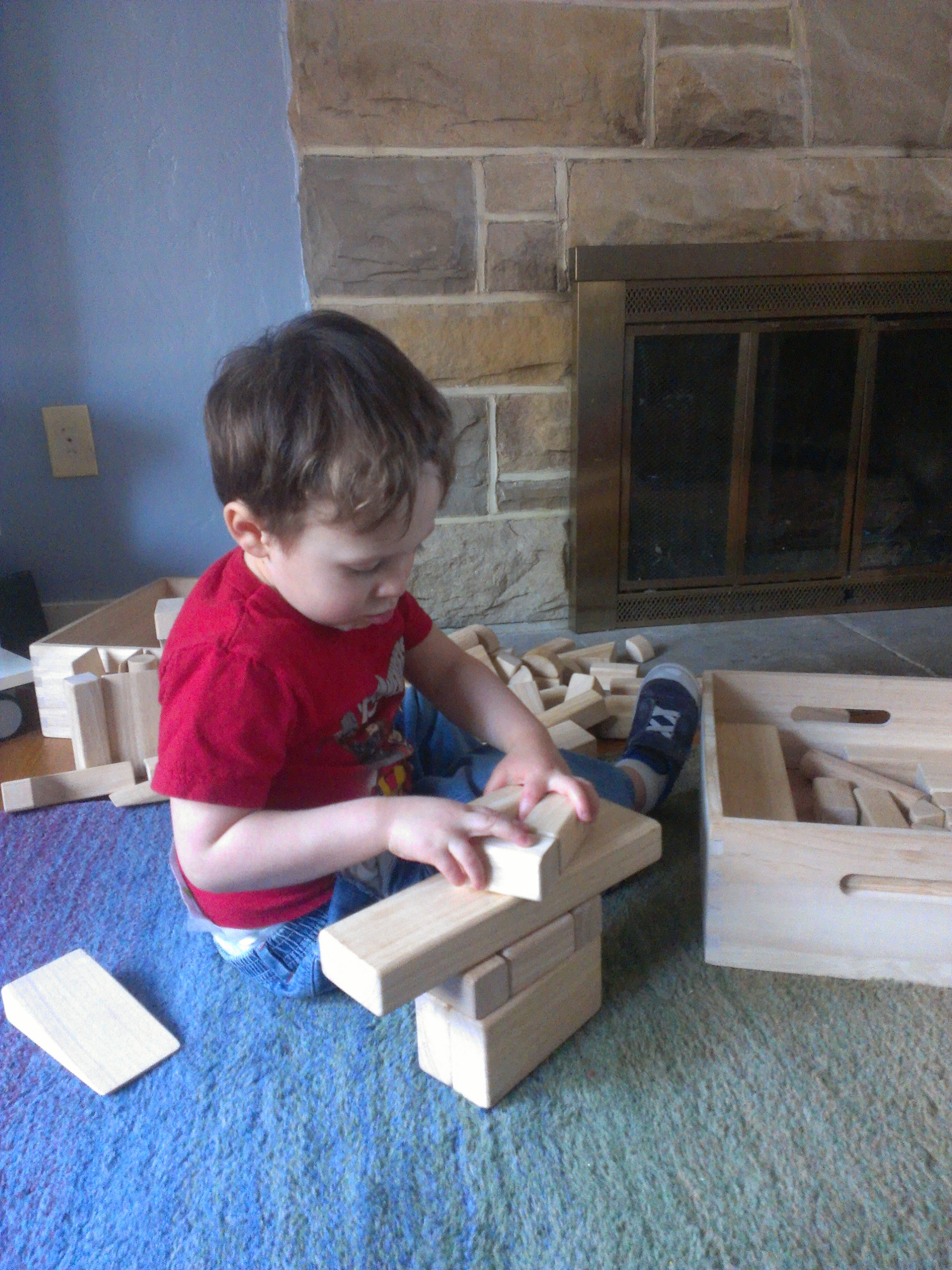 A young boy, age 3, playing with wooden unit blocks